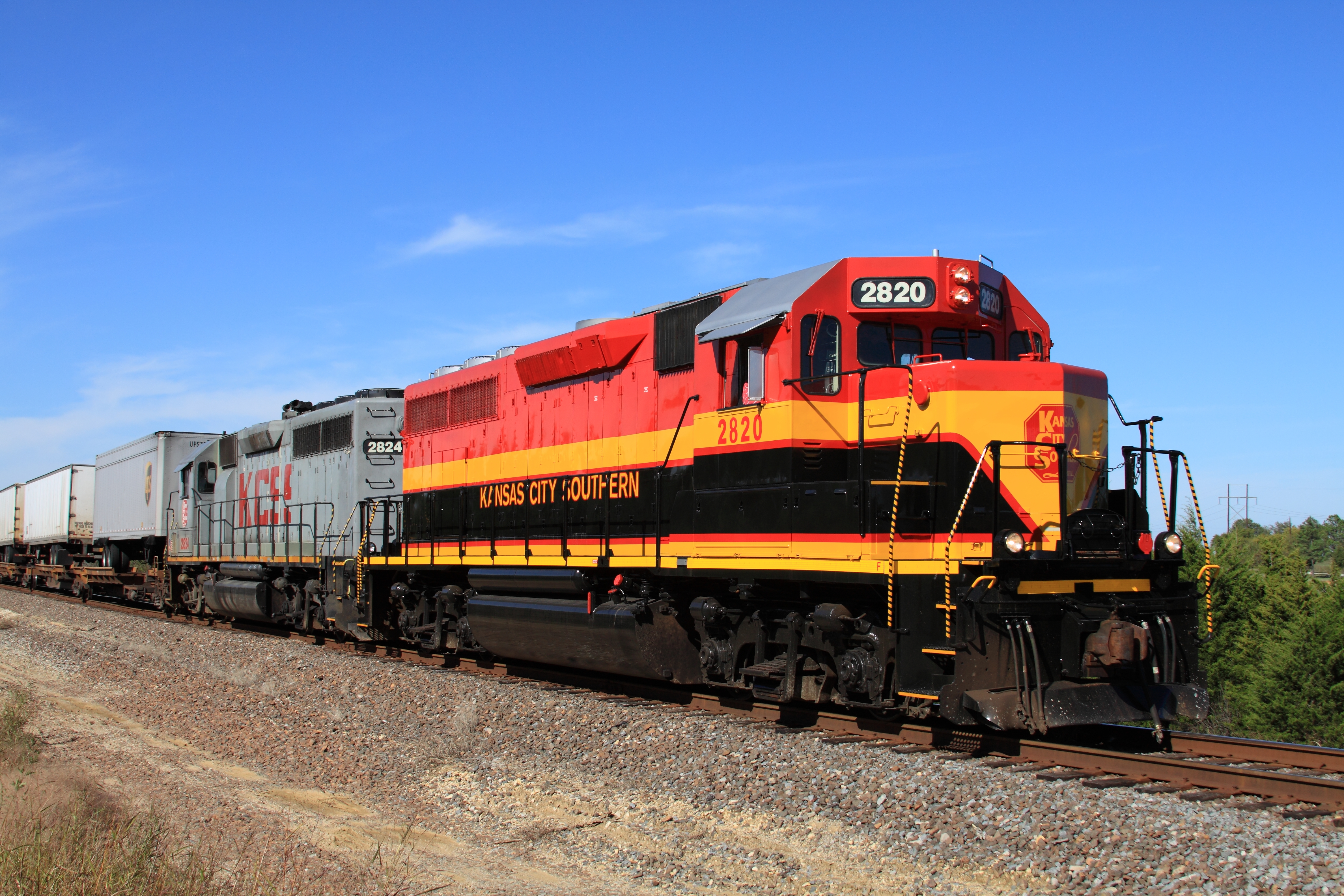 KCS 2820 was treated to a fresh "Retro Belle" paint job after its GP22ECO rebuild. KCS 2824, still sporting battleship grey paint and some mismatched doors, is not so lucky.